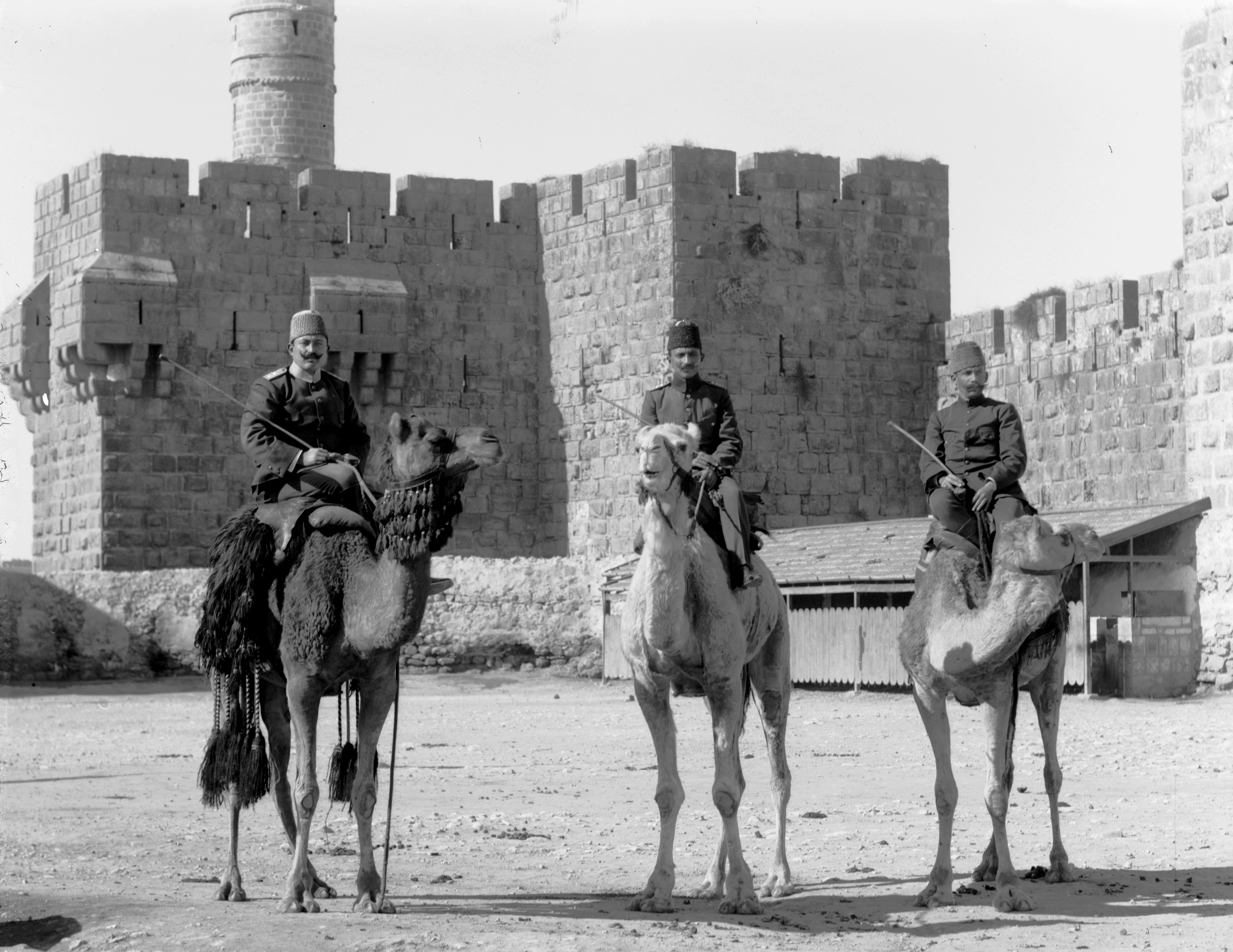 3 Turk. [i.e., Turkish] officers on camels before Tower of David